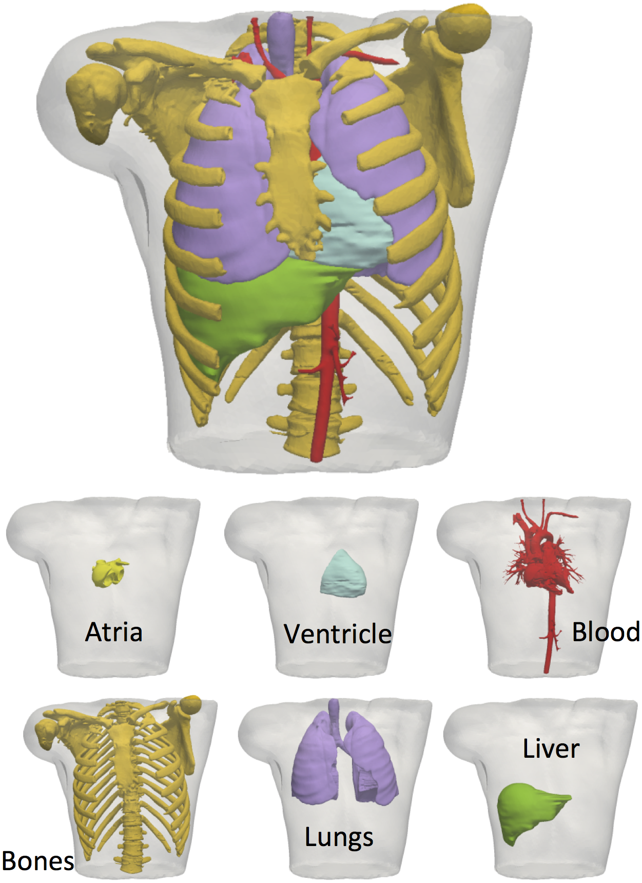 Image from the paper "Detailed Anatomical and Electrophysiological Models of Human Atria and Torso for the Simulation of Atrial Activation", PLoS ONE, 2015, 10(11): e0141573. Fig 4. Torso model including the most relevant organs segmented from an MR stack. Included organs are: ventricle (light blue,), ii) bones (orange), iii) liver (green), iv) lungs (purple), v) blood (red) and v) chest (transparent white).